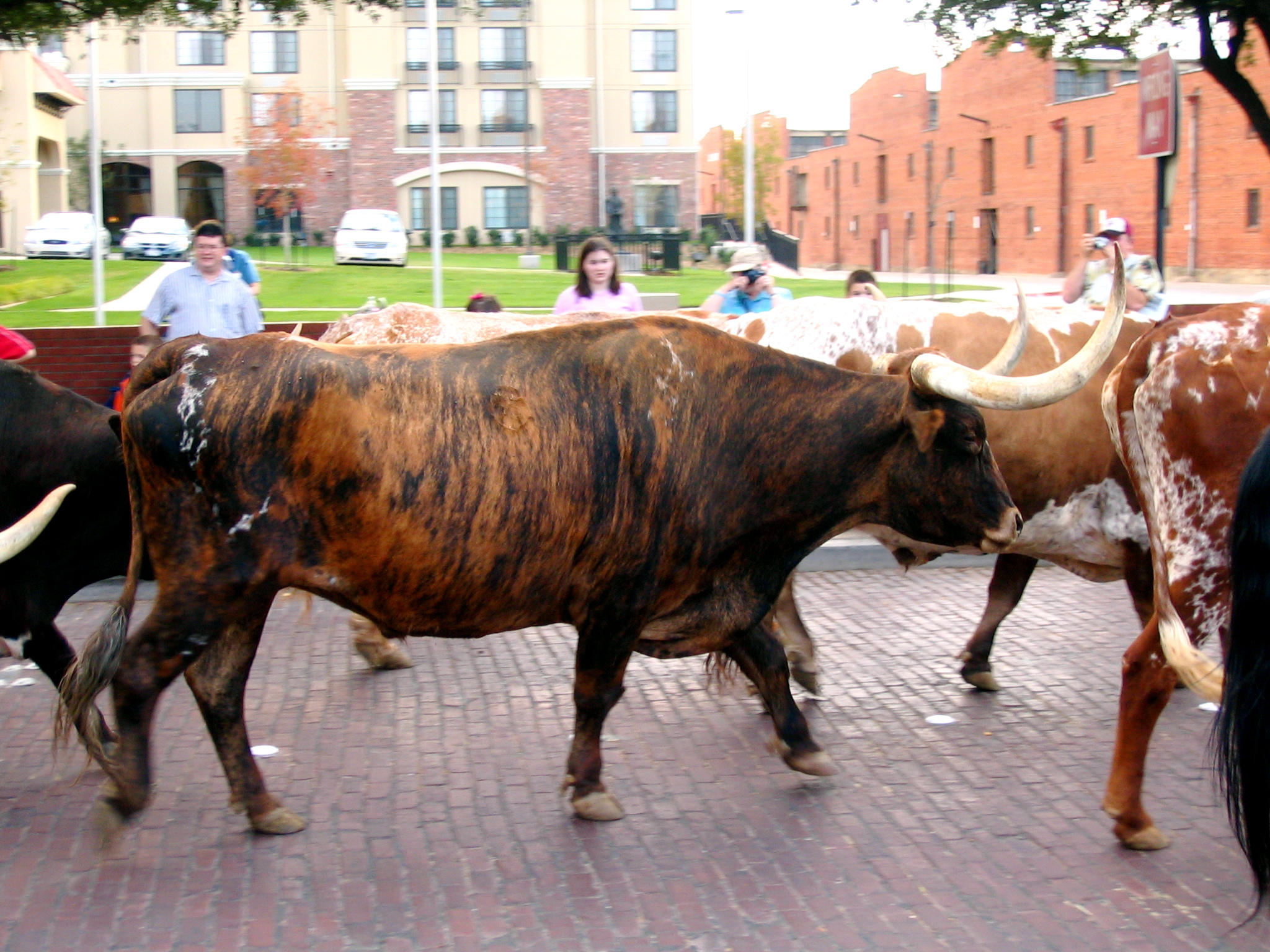 A brindle longhorn